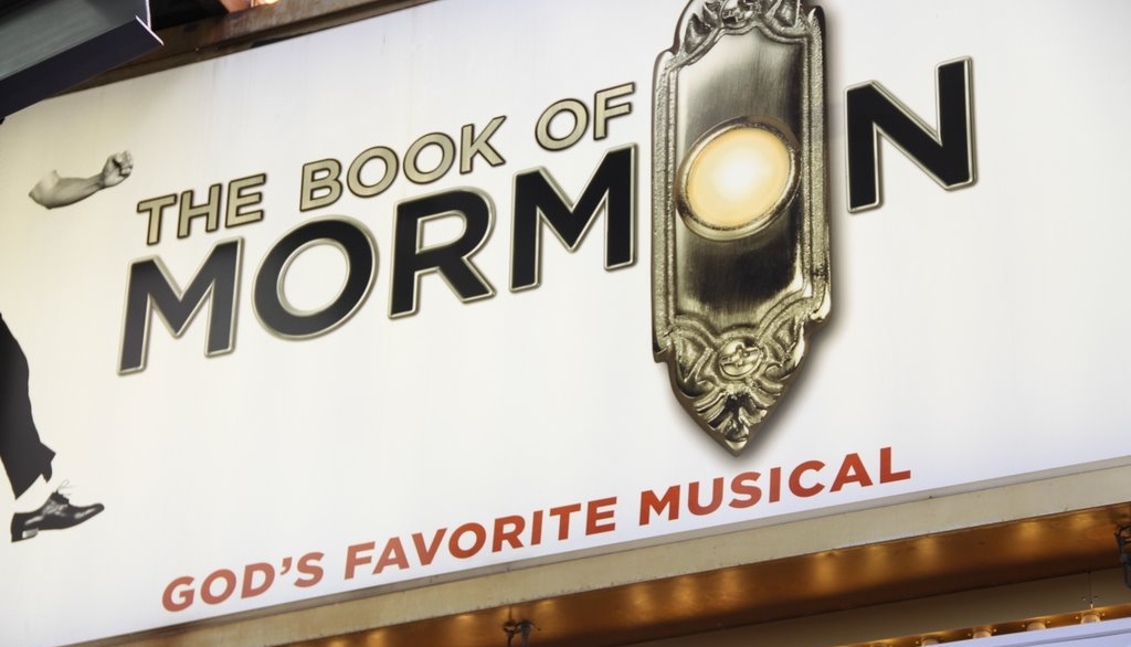 The Book of Mormon musical, Eugene O´Neill Theater, Broadway, New York